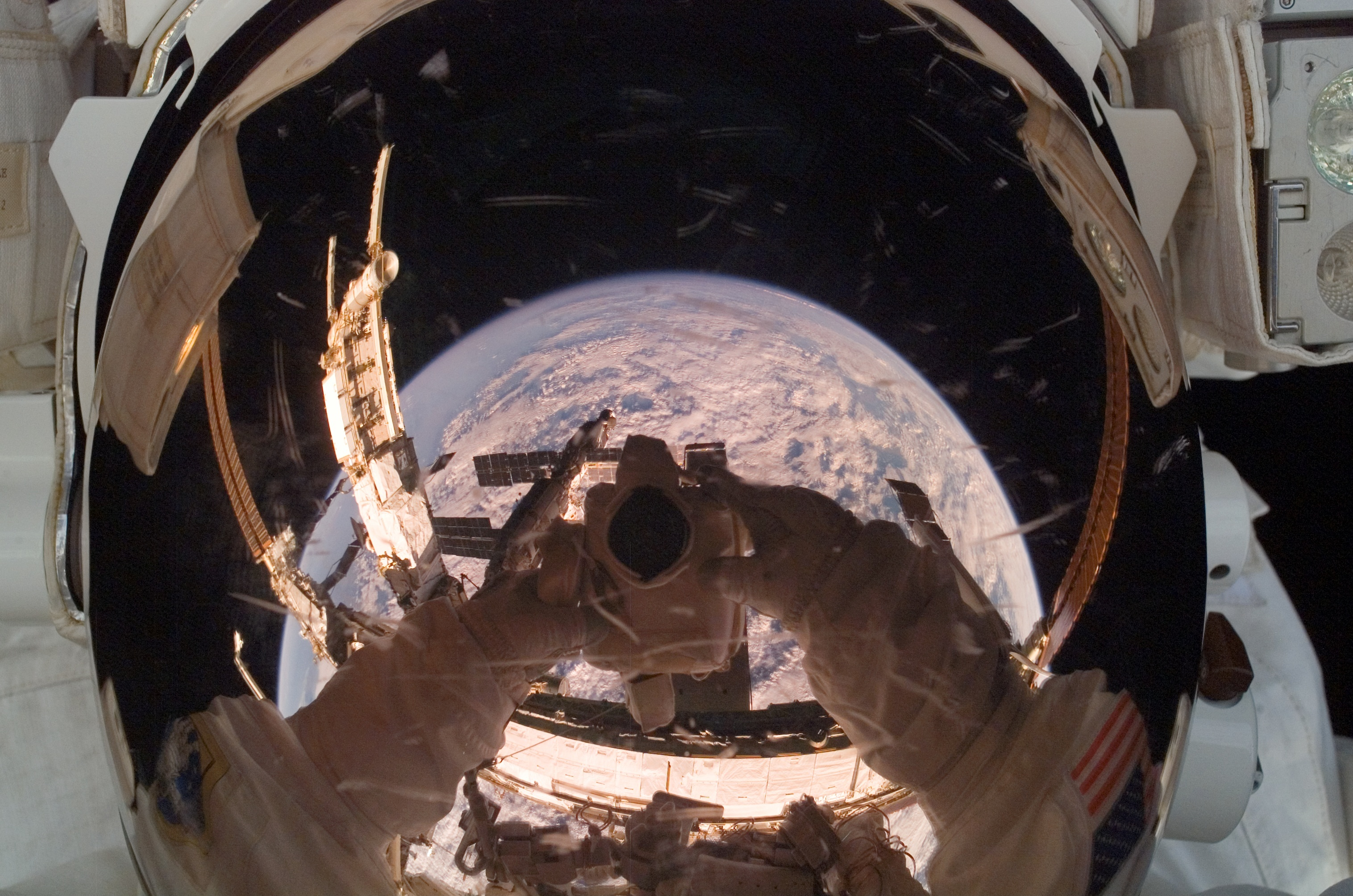 Astronaut Clay Anderson, Expedition 15 flight engineer, uses a digital camera to expose a photo of his helmet visor during the mission's third planned session of extravehicular activity (EVA) as construction continues on the International Space Station. Also visible in the reflections in the visor are various components of the station and a blue and white portion of Earth. During the 5-hour, 28-minute spacewalk, Anderson and astronaut Rick Mastracchio (out of frame), STS-118 mission specialist, relocated the S-Band Antenna Sub-Assembly from Port 6 (P6) to Port 1 (P1) truss, installed a new transponder on P1 and retrieved the P6 transponder.